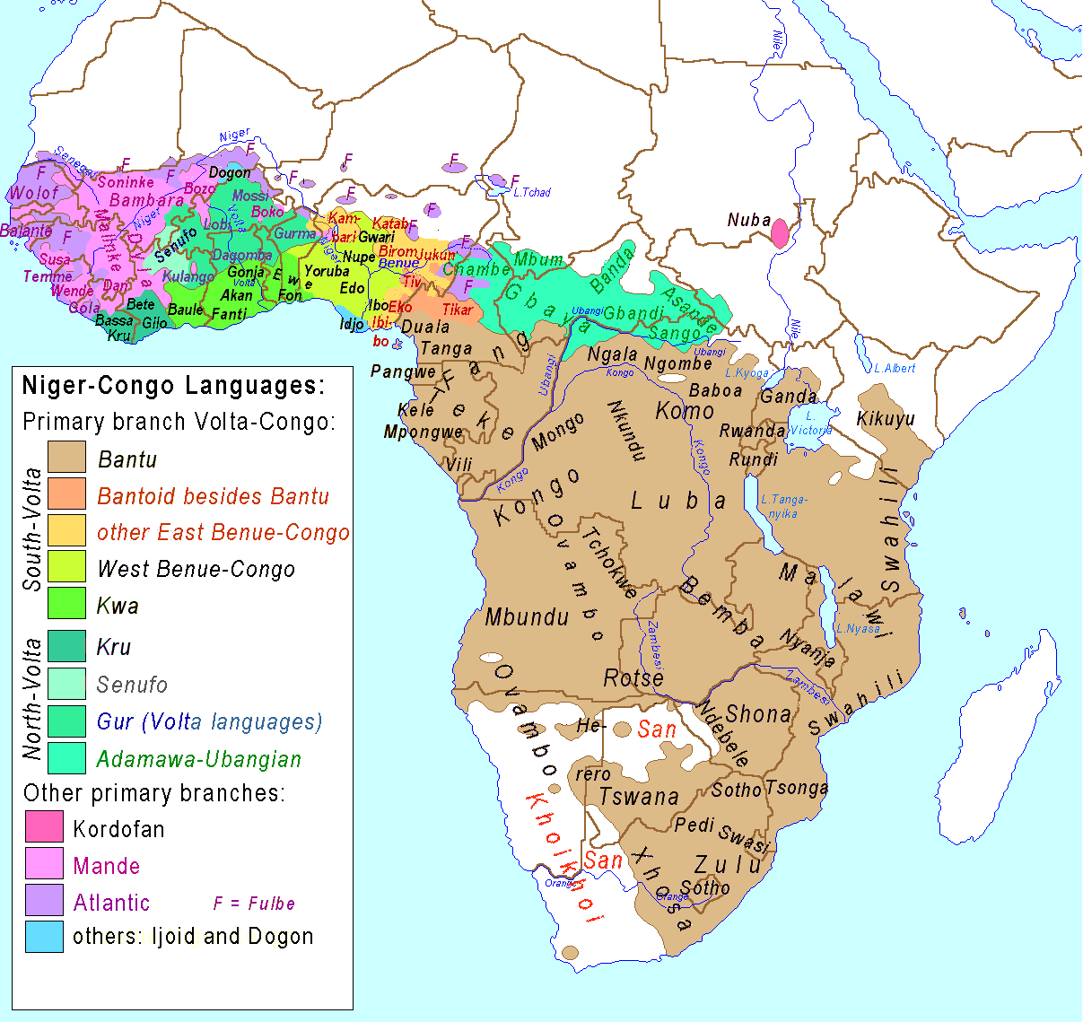 Map showing the localization of Niger Congo subgroups and important single languages of that family.